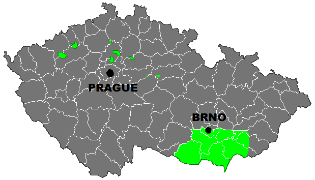 Czech Wine Regions - Moravia and Bohemia